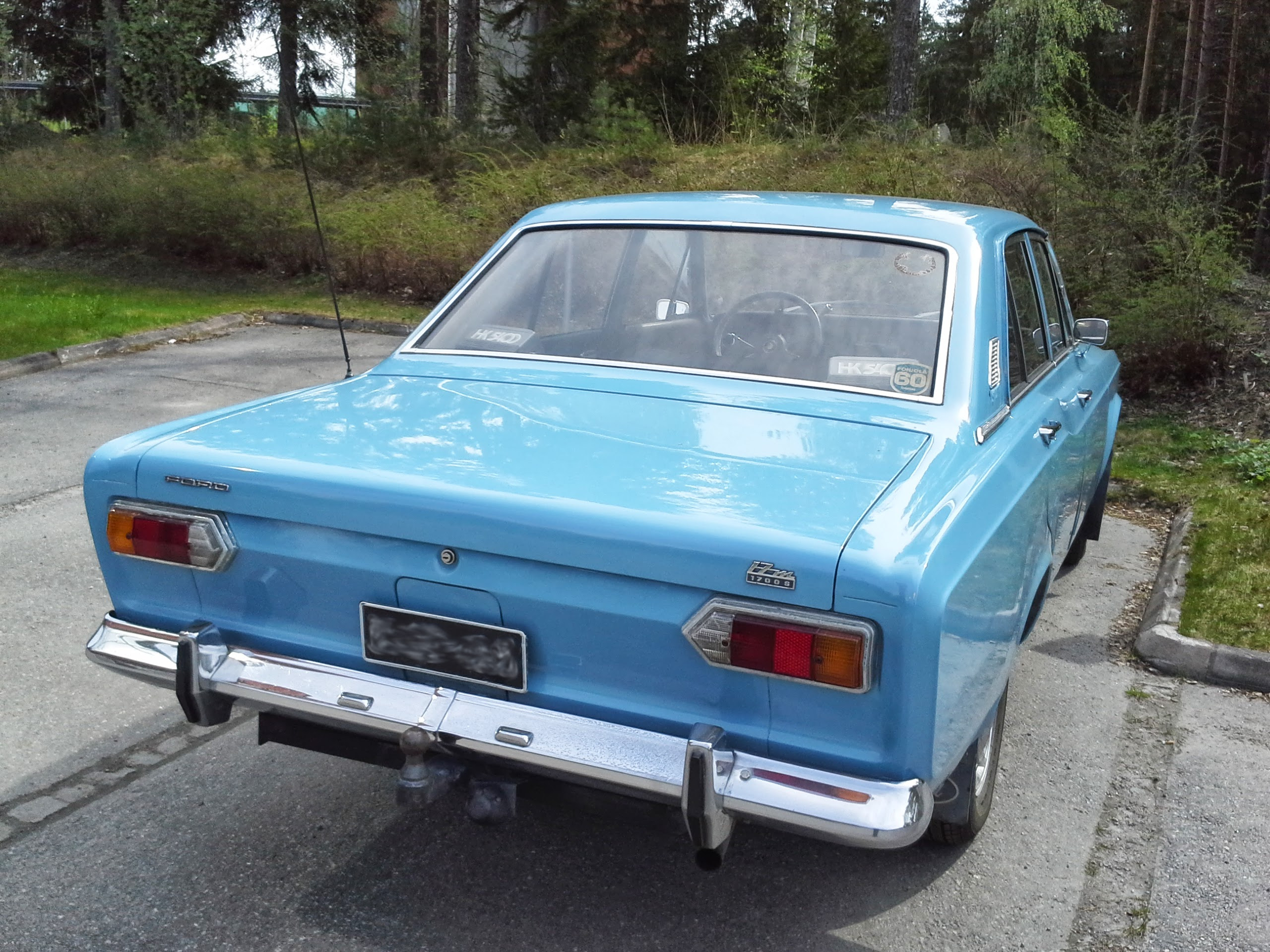 A blue four-door Ford Taunus 17M 1700S.